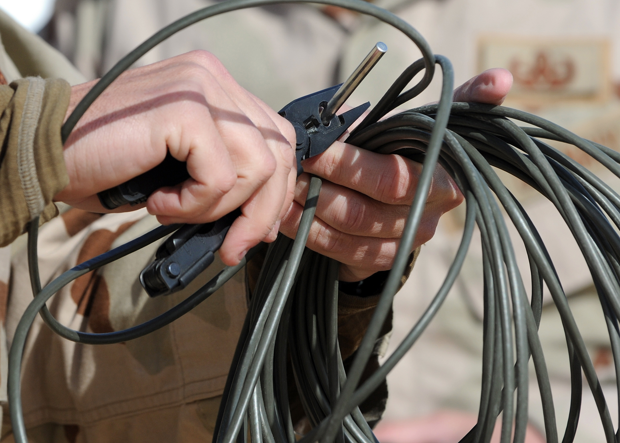 CAMP BUEHRING, Kuwait (Dec. 12, 2011) Lt. j.g. Jacob Mello, assigned to Commander, Task Group (CTG) 56.1, crimps a non-electric blasting cap onto detonation cord during demolition operations supervisor training. CTG 56.1 provides mine counter-measure, explosive ordnance disposal, salvage-diving, counter-terrorism and force protection for the U.S. 5th Fleet area of responsibility. (U.S. Navy photo by Chief Mass Communication Specialist Kathryn Whittenberger/Released)